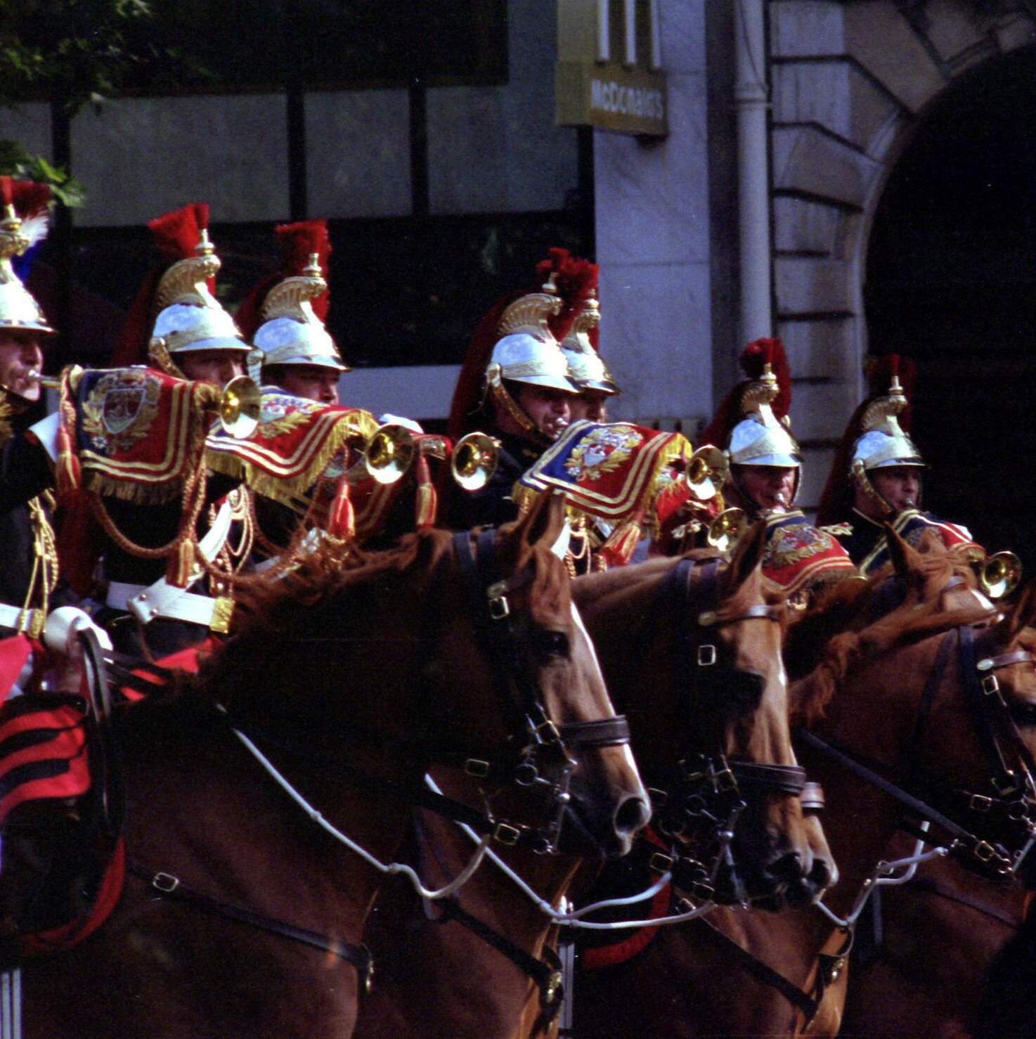 French Republican Guard, presidential escort for the military parade of the 14th of July 2006. Kodak 400 film, under-exposed by three stops.